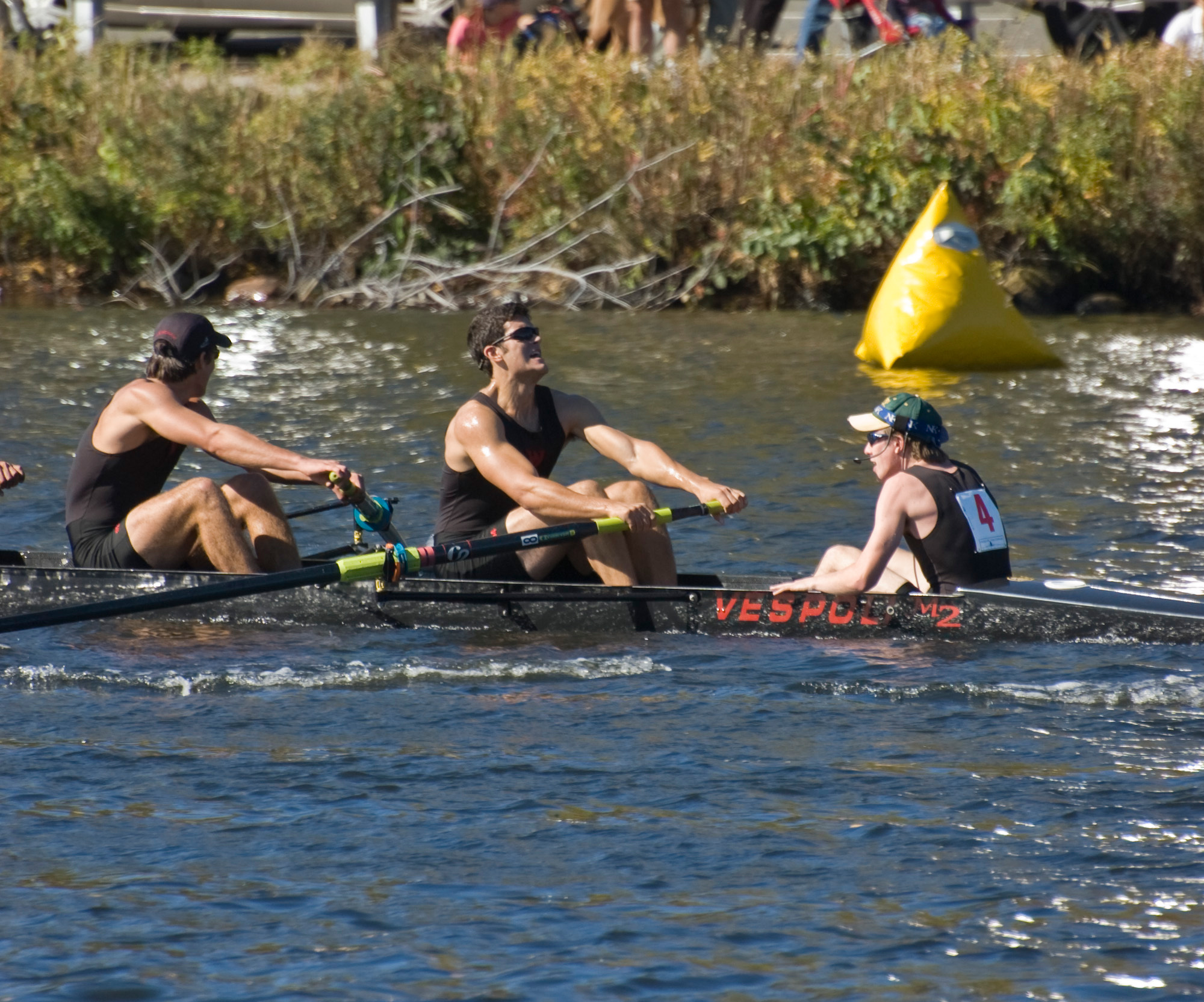 The coxswain, 8th and 7th position rowers in a 8 man shell during the Head of the Charles Regatta.